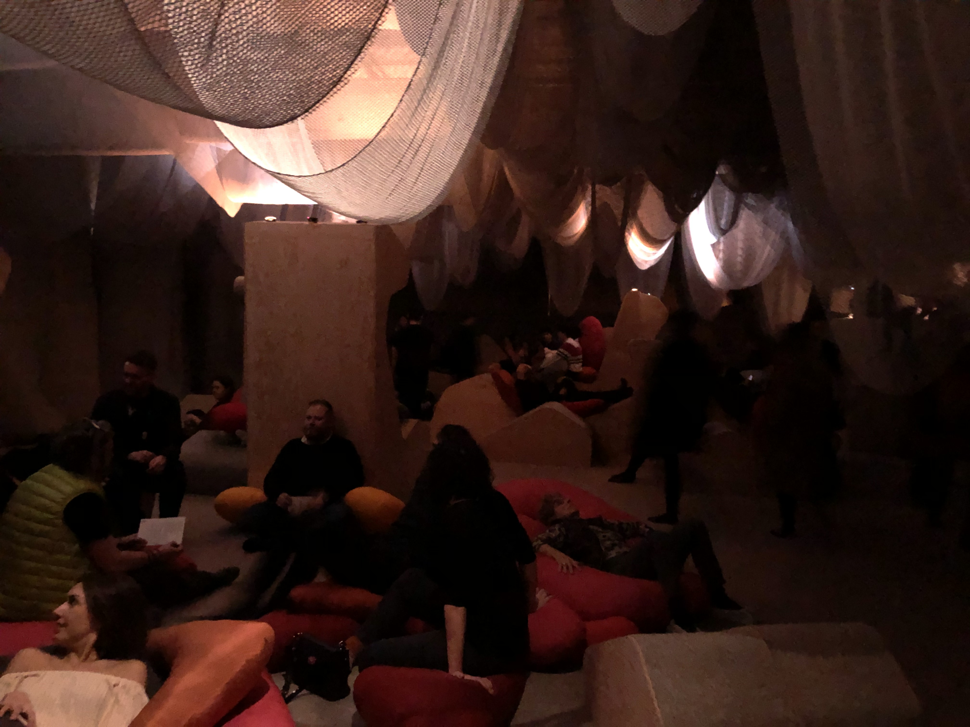 View of the New Circadia installation in use including loungers and pillows.